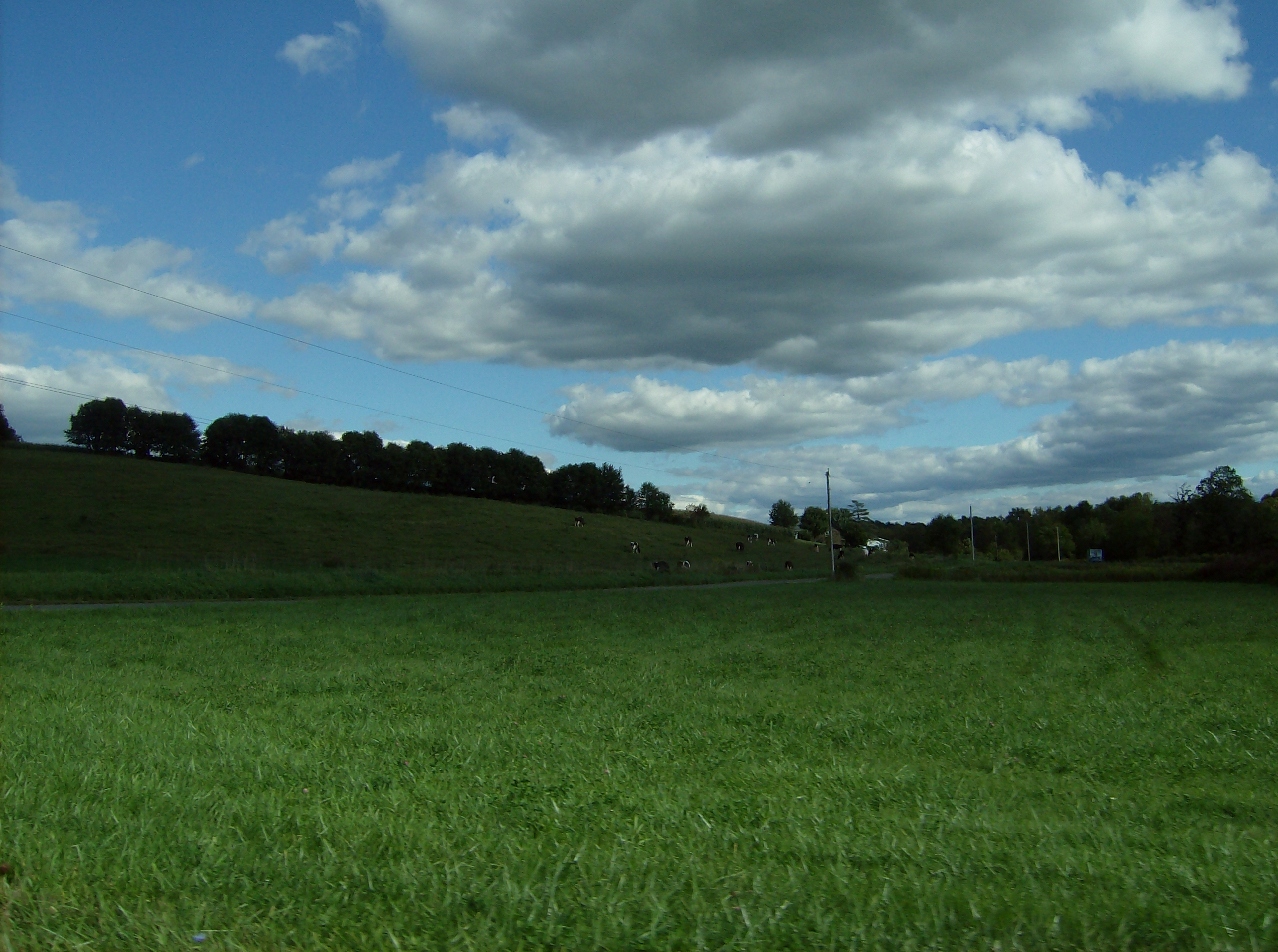 View eastward from State Route 9 of fields in southern Augusta Township, Carroll County, Ohio, United States.